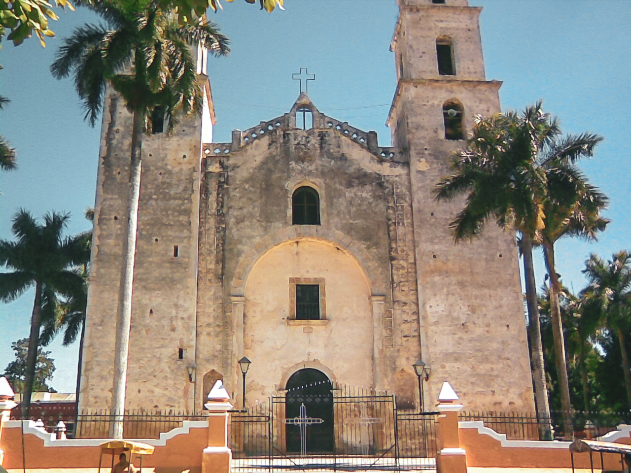 Church of Espita, Yucatan.